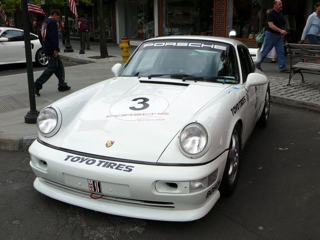 Porsche 964 Carrera Cup, 2006 Scarsdale Coucours